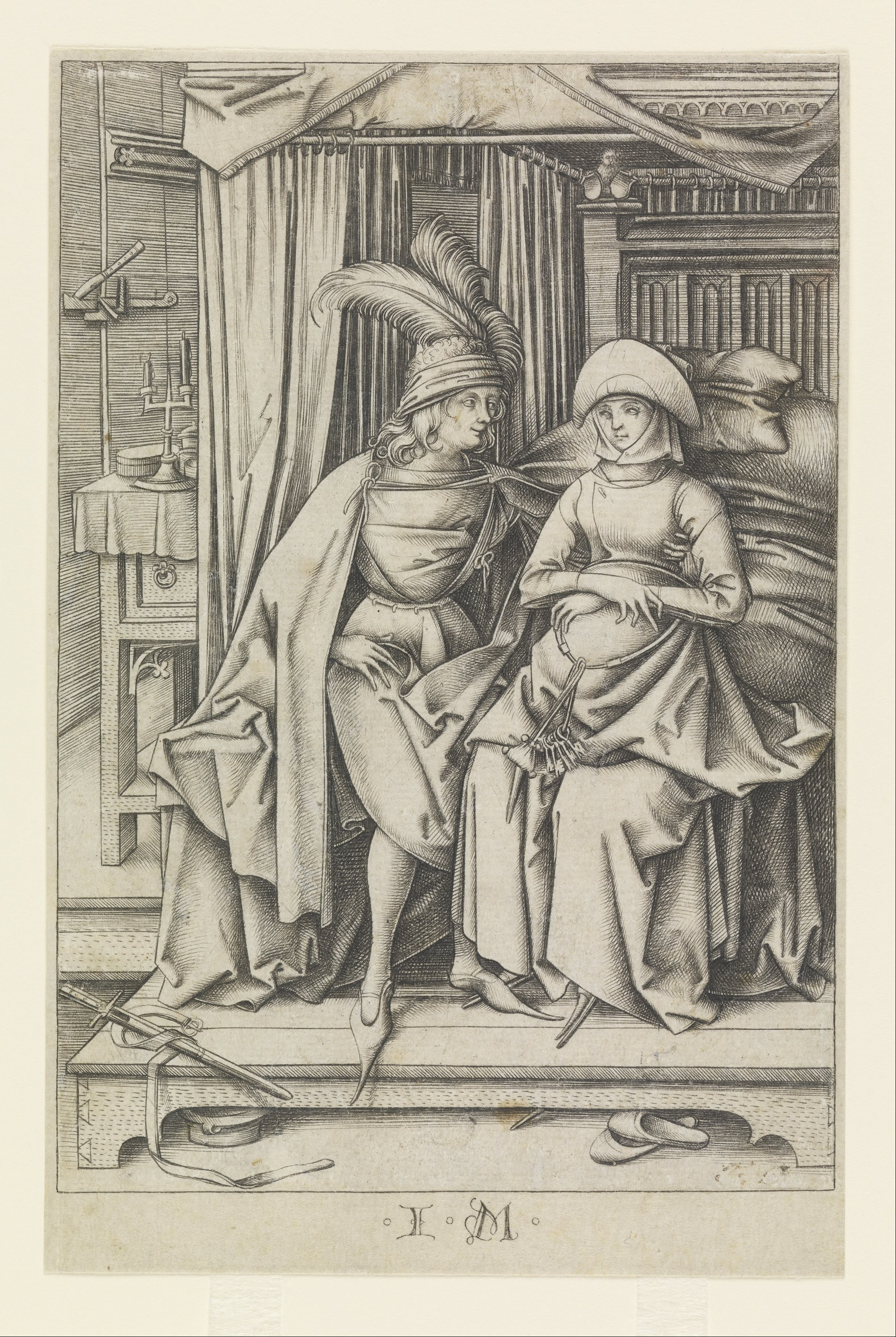 Prints